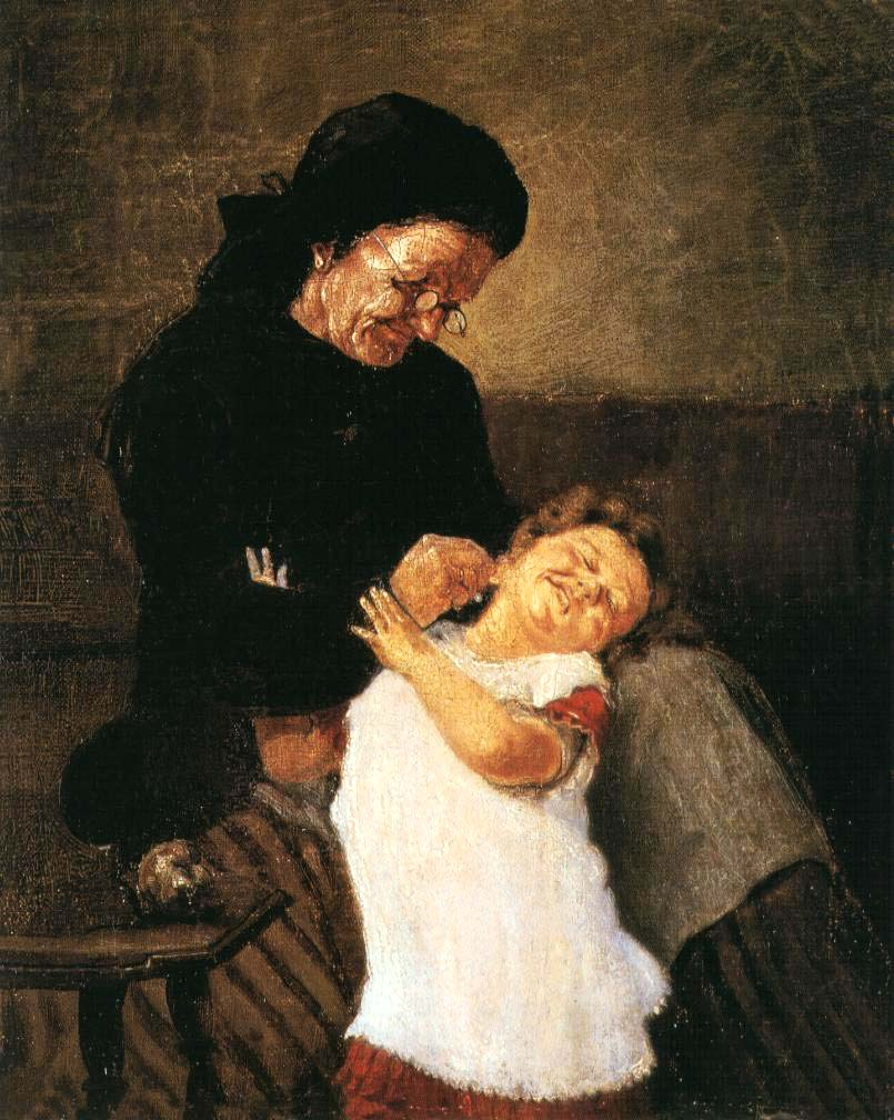 "The Bad Grandson"